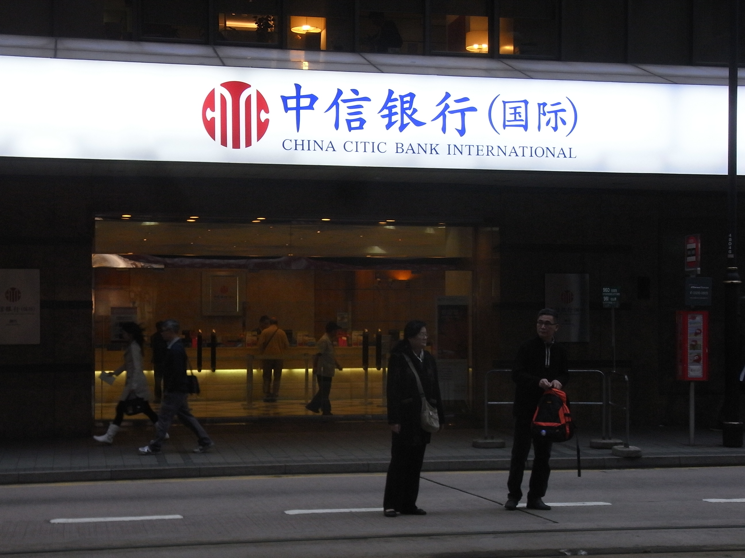 New bank name of the Citic Ka Wa Bank in Hong Kong - China Citic Bank International